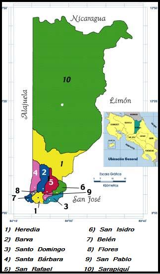 Map of Heredia